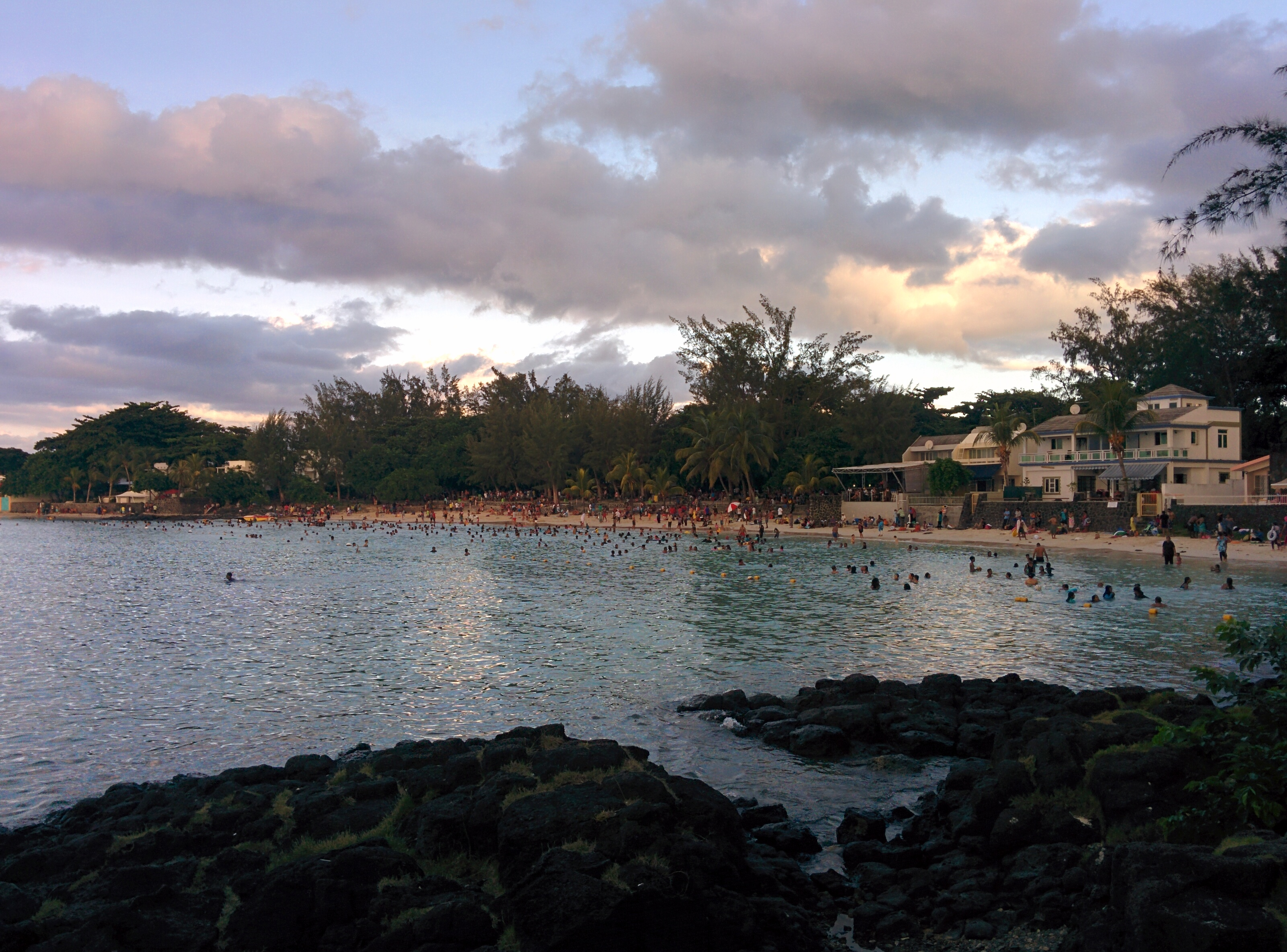 Pereybere Beach view at Grand-Baie, Mauritius.